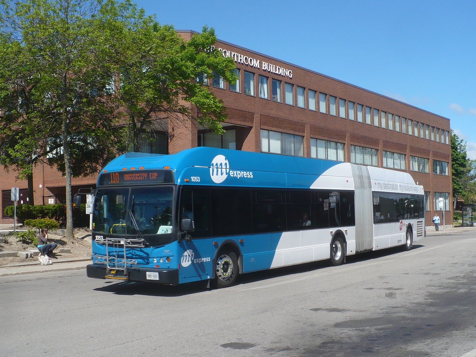 MiWay bus 1053 at South Common Centre Bus Terminal in Mississauga, Ontario.